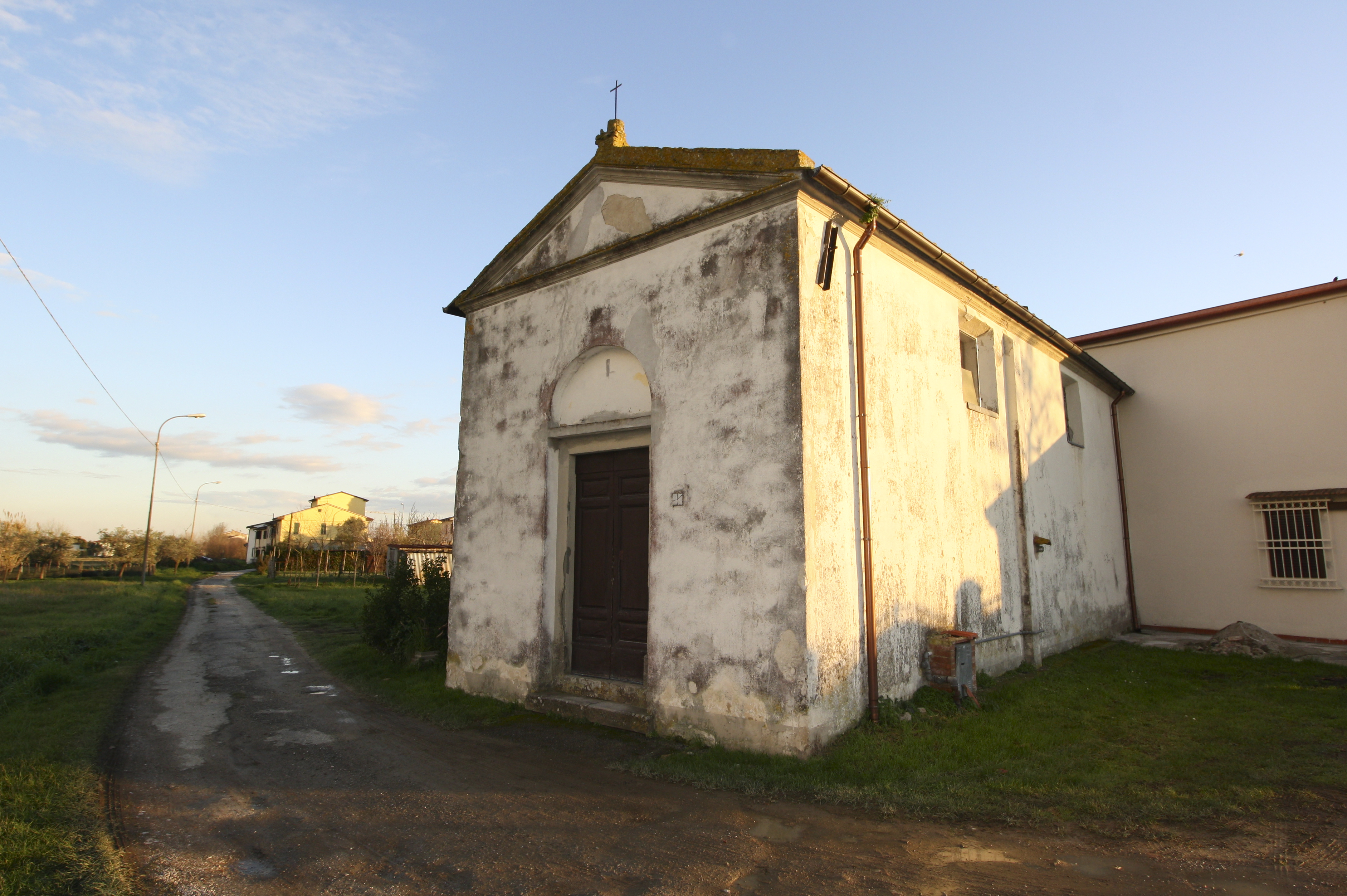 Church San Donato, Montione, hamlet of Cascina, Province of Pisa, Tuscany, Italy